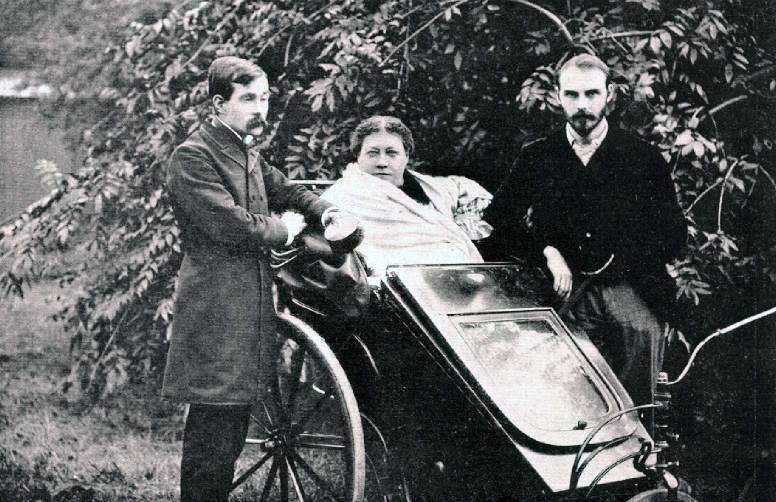 Helena Petrovna Blavatsky (1831-1891, mitte), James Morgan Pryse (* 1859, links) und George Robert Stow Mead (1863-1933, rechts) in London 1890